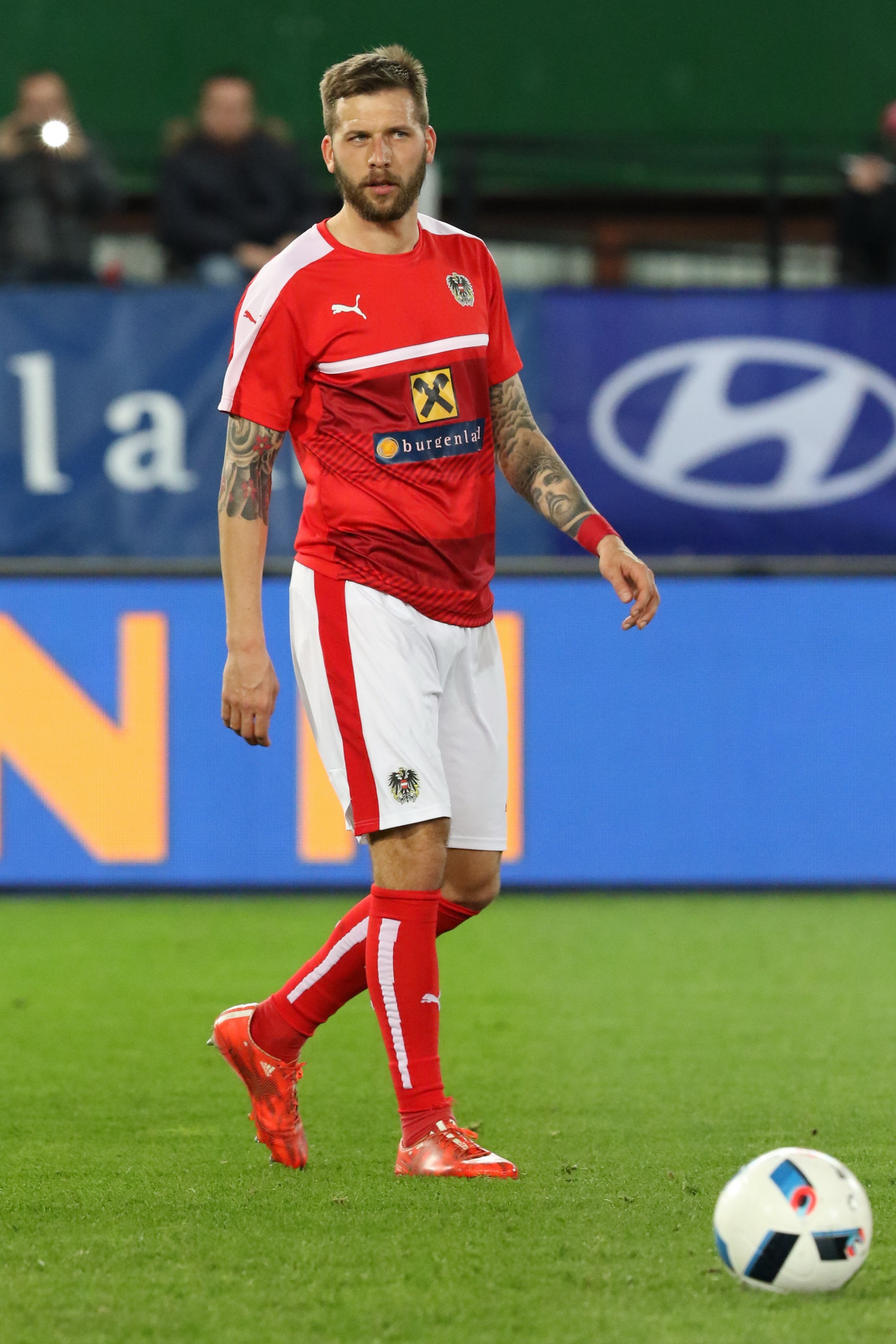 Friendly match – Austria (red shirts) vs. Turkey (blue shirts) 1–2 (1–1) on 2016-03-29 in Ernst-Happel-Stadion, Vienna – The photo shows Guido Burgstaller (1. FC Nürnberg).